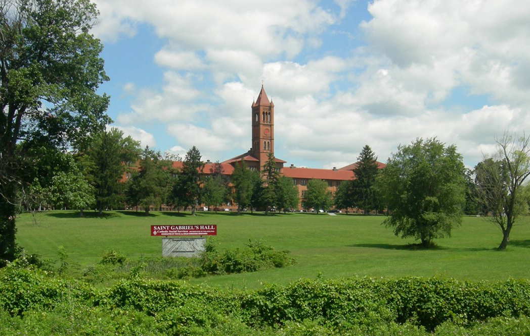 Saint Gabriel's Hall, from Route 422. Originally an orphanage for boys operated by the Christian Brothers, St. Gabe's is now a juvenile detention facility.